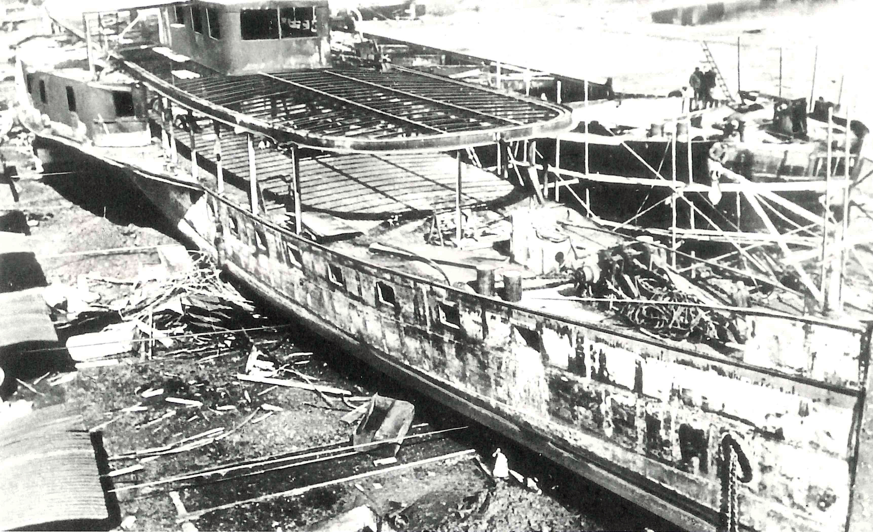 Paddle Steamer Rheinland